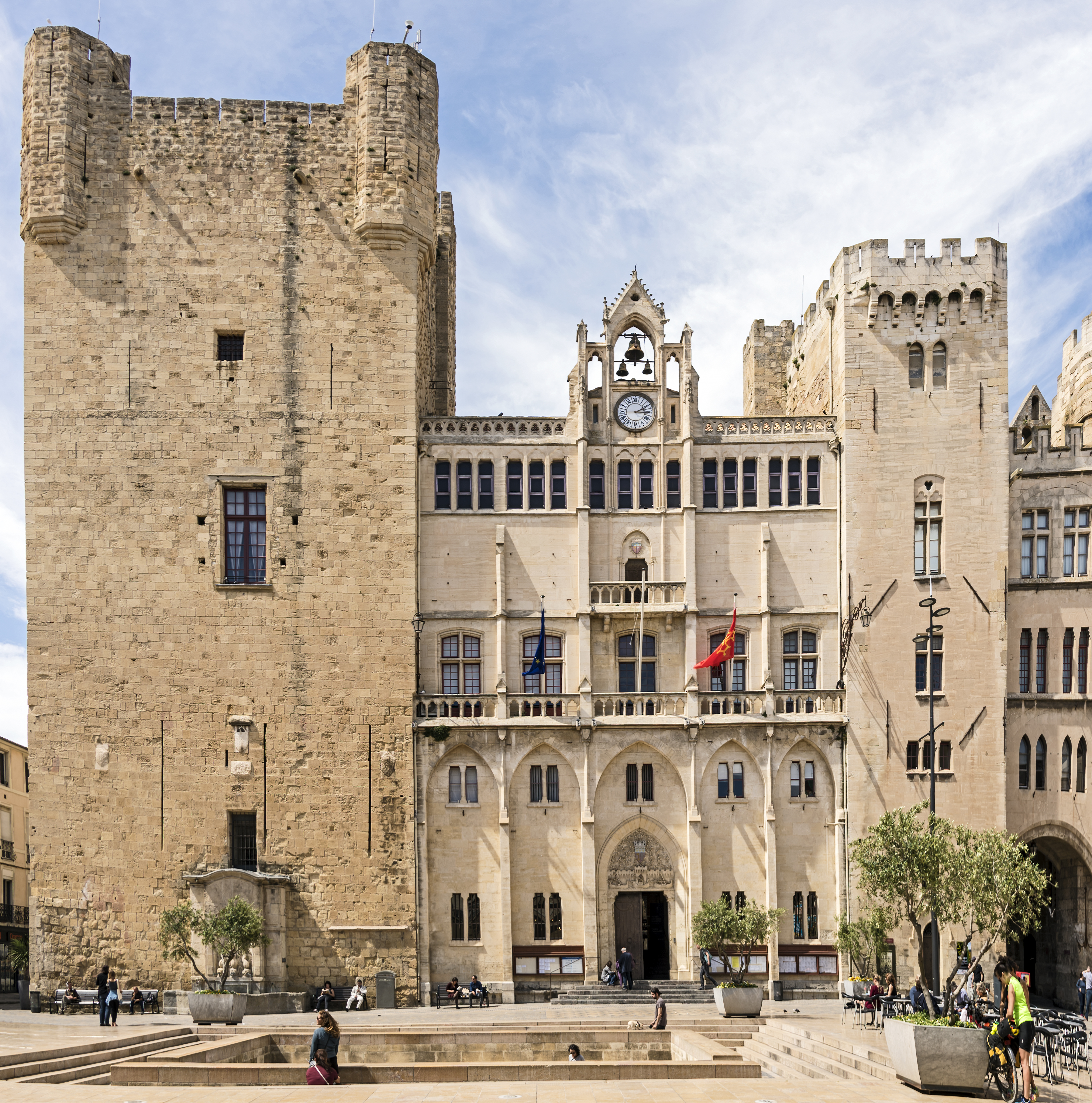 Palace of the Archbishops of Narbonne - Facade on the Place de l'Hôtel-de-Ville.